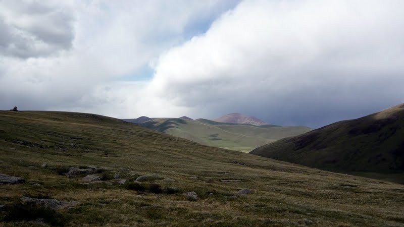 Mount Erkhet, 3.535 m. 2nd highest point of Khangai Mountains, Mongolia.